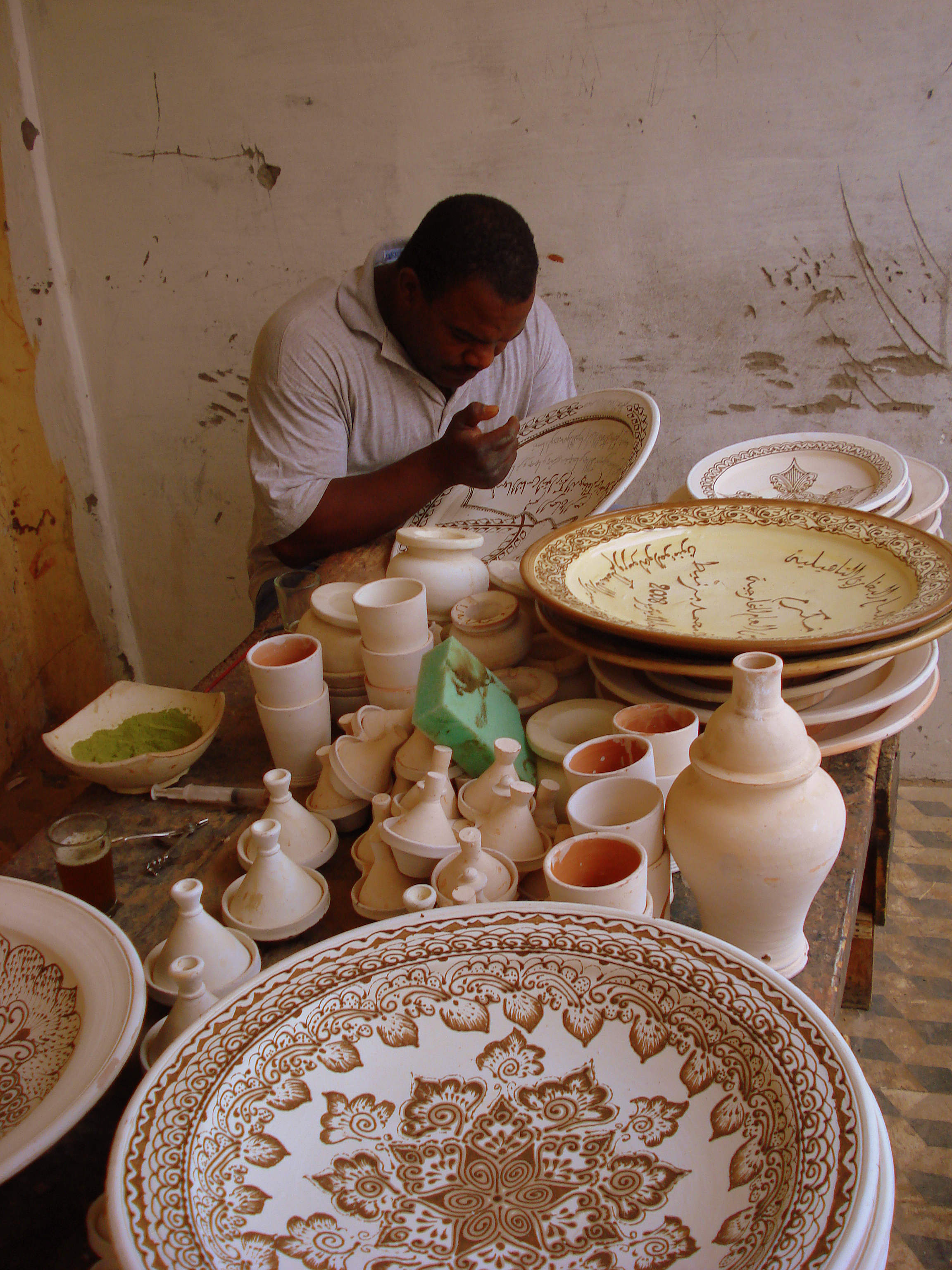 Tamegroute